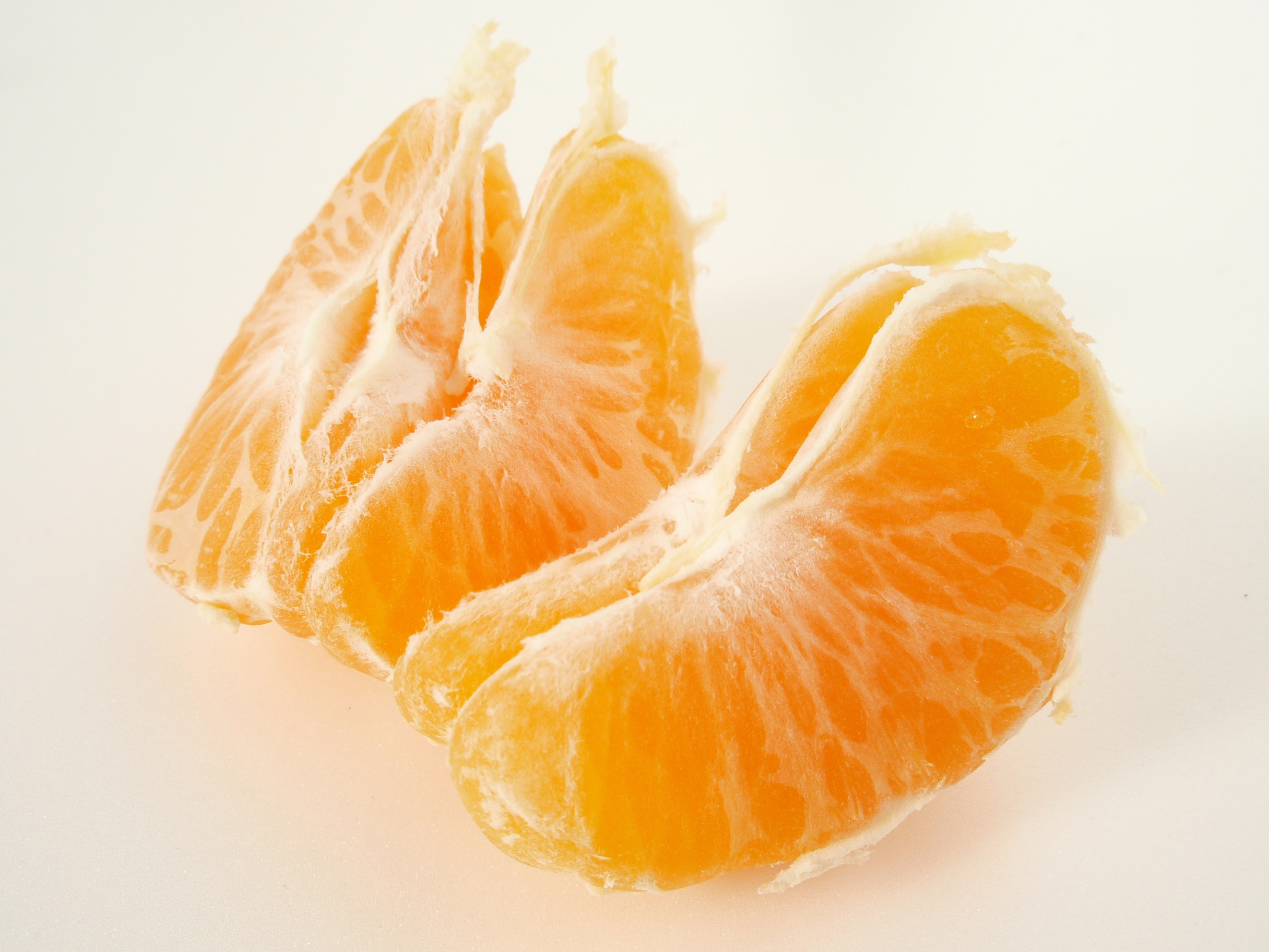 Citrus unshiu from Japan.